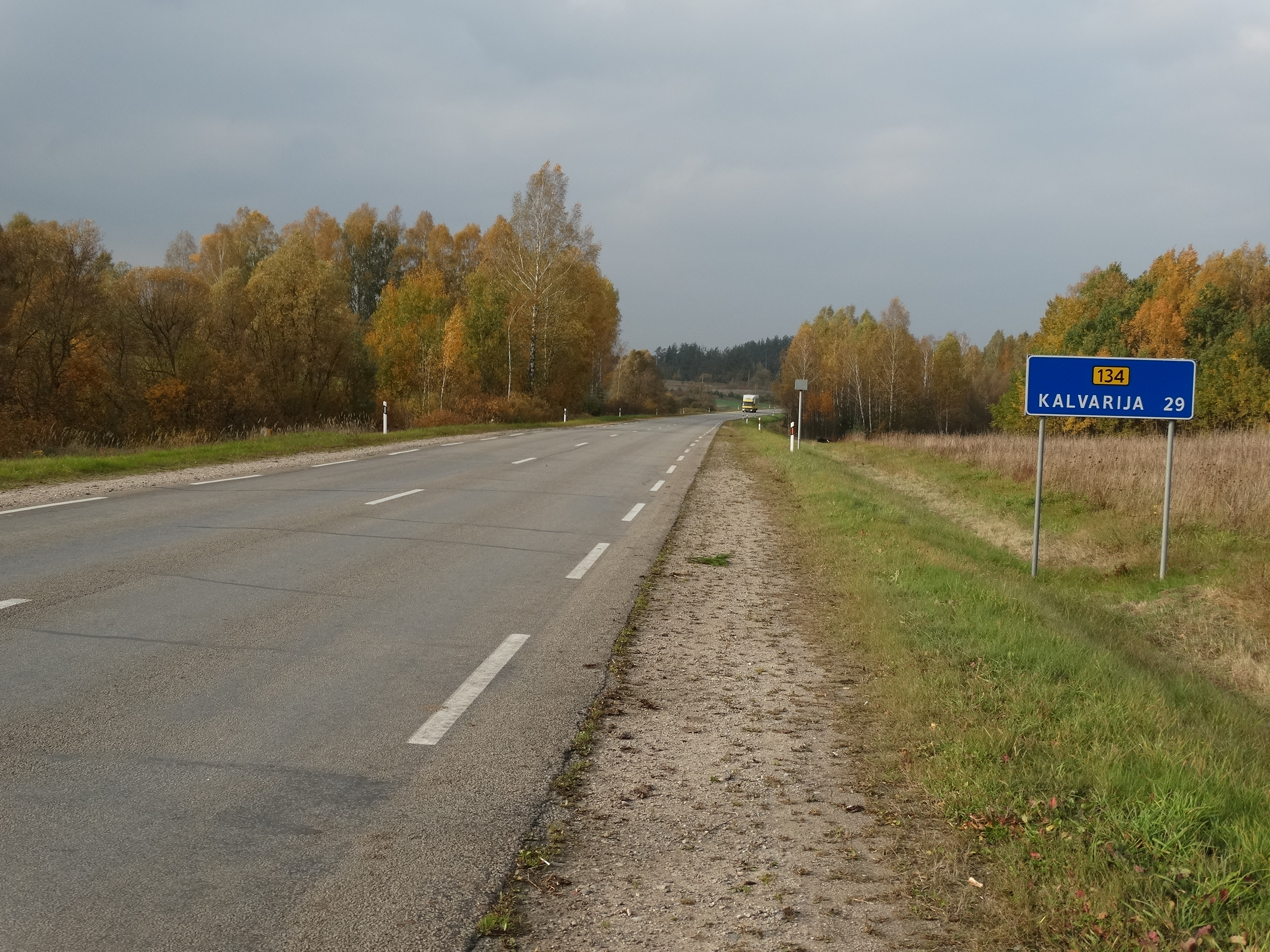 Regional road 134 near Lazdijai, Lithuania